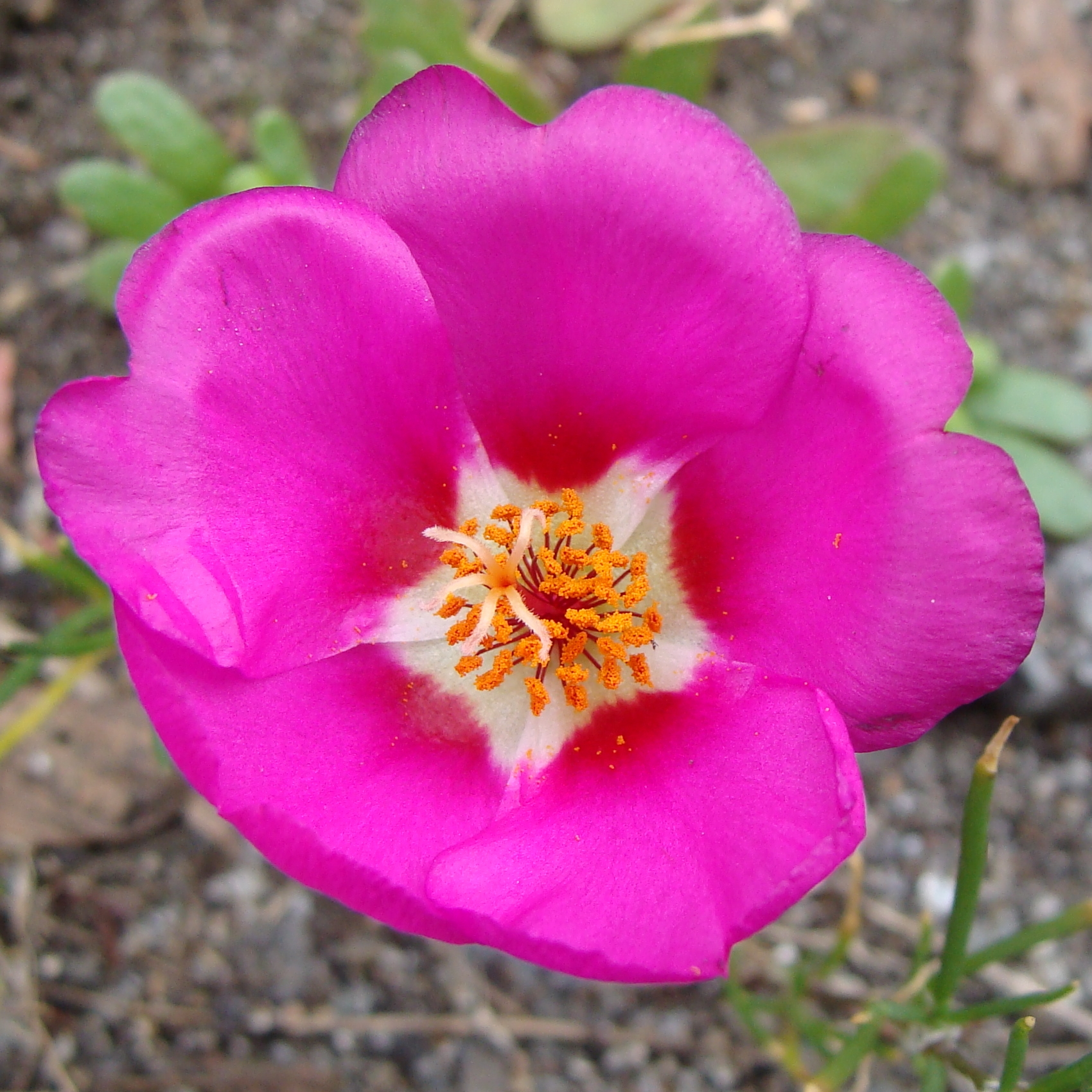 Portulaca oleracea(Common Purslane) Aomori prf Japan